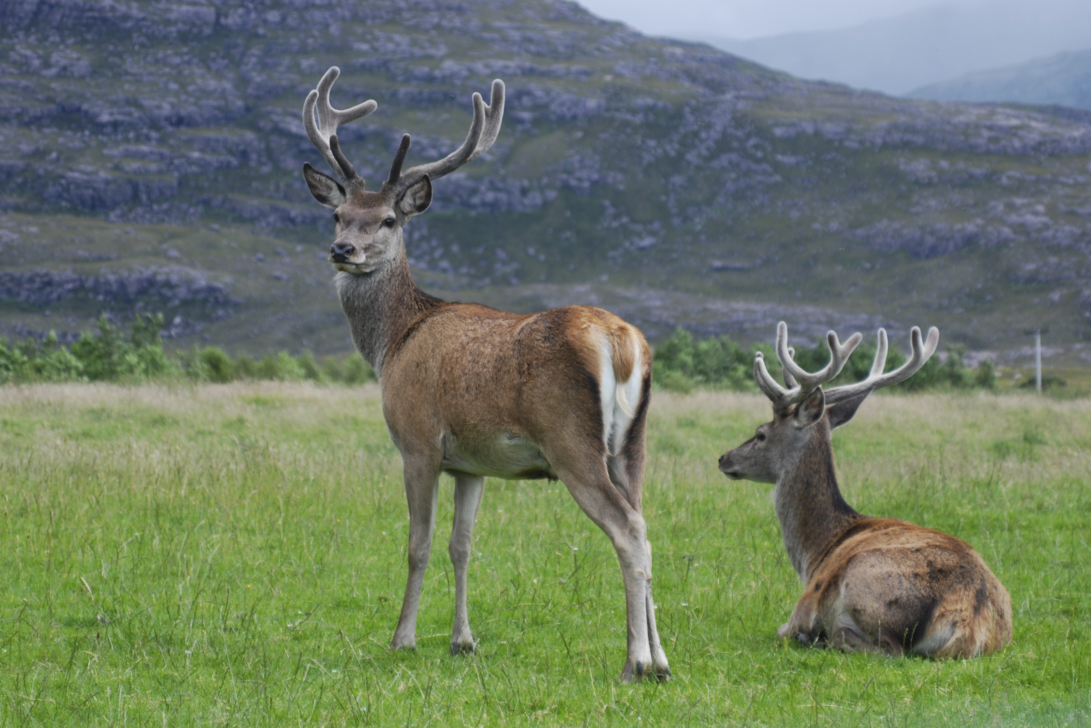 A pair of red deer stags (Cervus elaphus) with velvet antlers